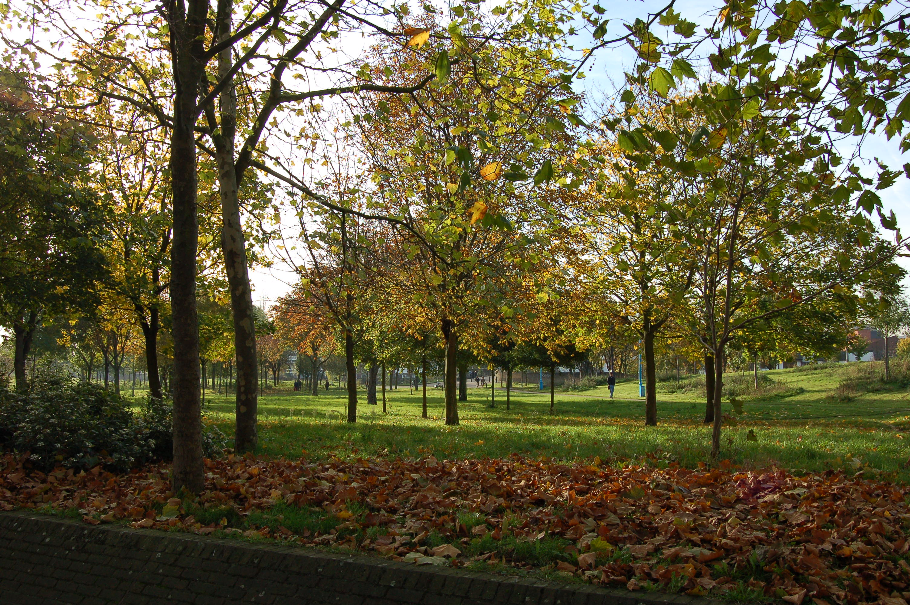 Mile End Park Use freely, pls attribute K.B.Thompson